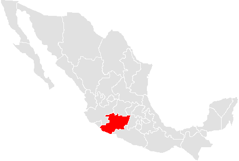 A map of the Mexican state of Michoacan made by me